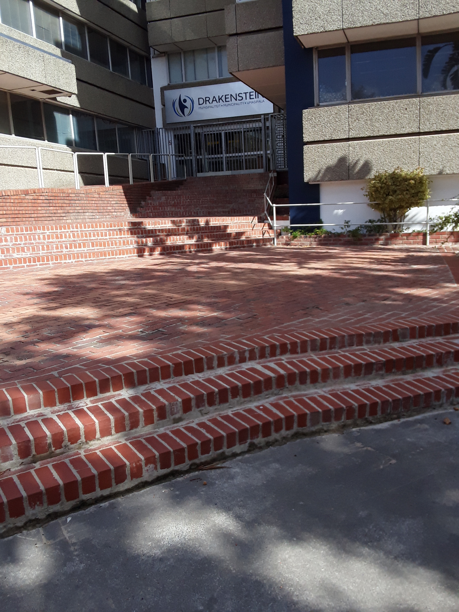 Civic centre of the Drakenstein Local Municipality, situated in Paarl (the seat of the municipality).